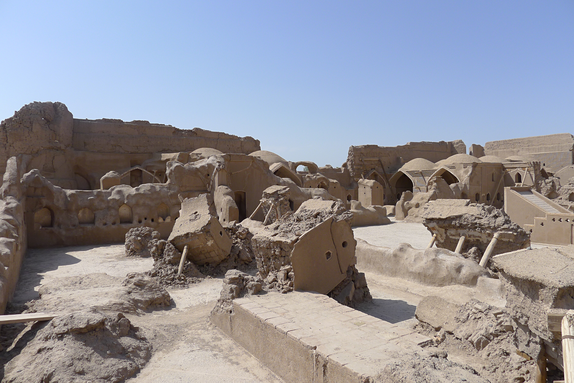 Iran, Bam citadel, october 2013